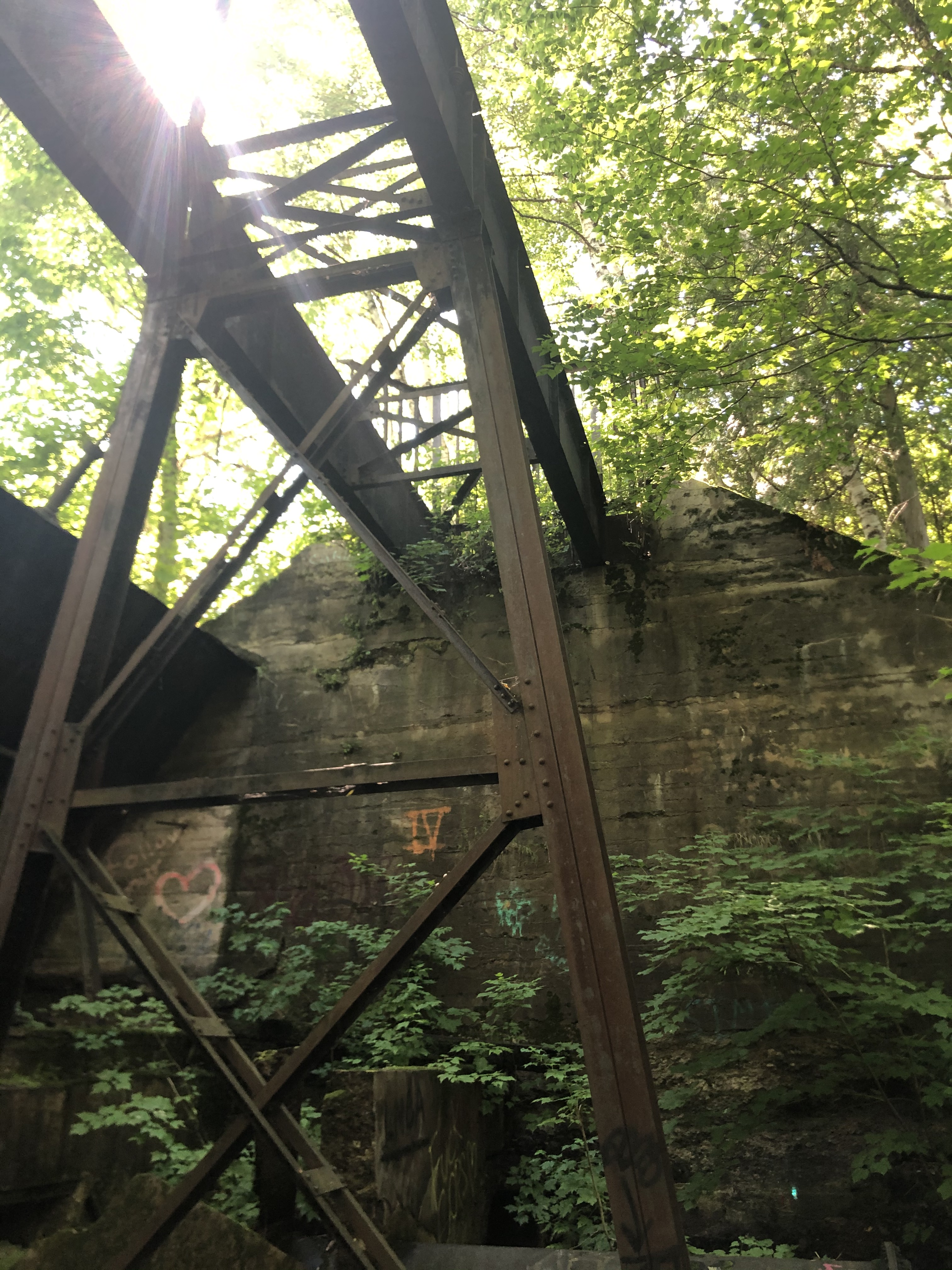 Underside of the Redridge Steel Dam in Michigan, 08/08/2020